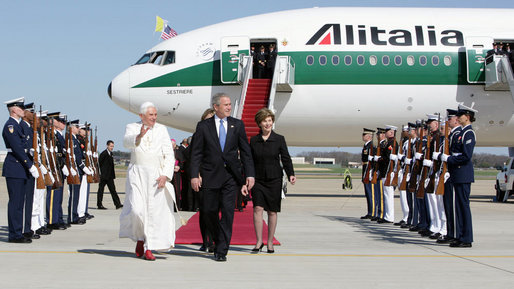 President George W. Bush walks the red carpet with Pope Benedict XVI upon the Pontiff's arrival Tuesday, April 15, 2008, at Andrews Air Force Base, Maryland. Mrs. Laura Bush and daughter Jenna also were on hand to accompany welcome the Pope.